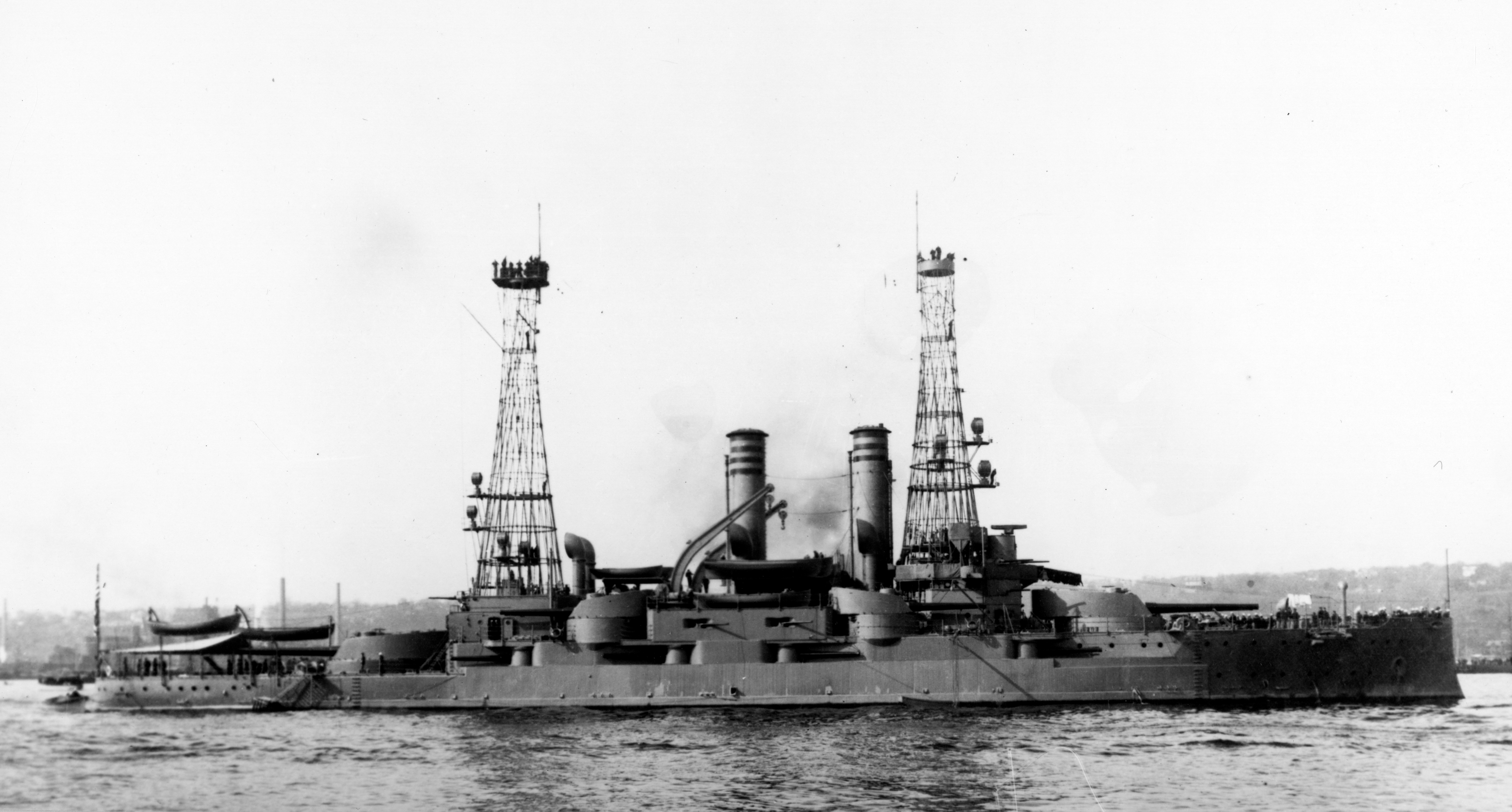 USS Mississippi, sold to Greek navy in 1914 and renamed Kilkis.